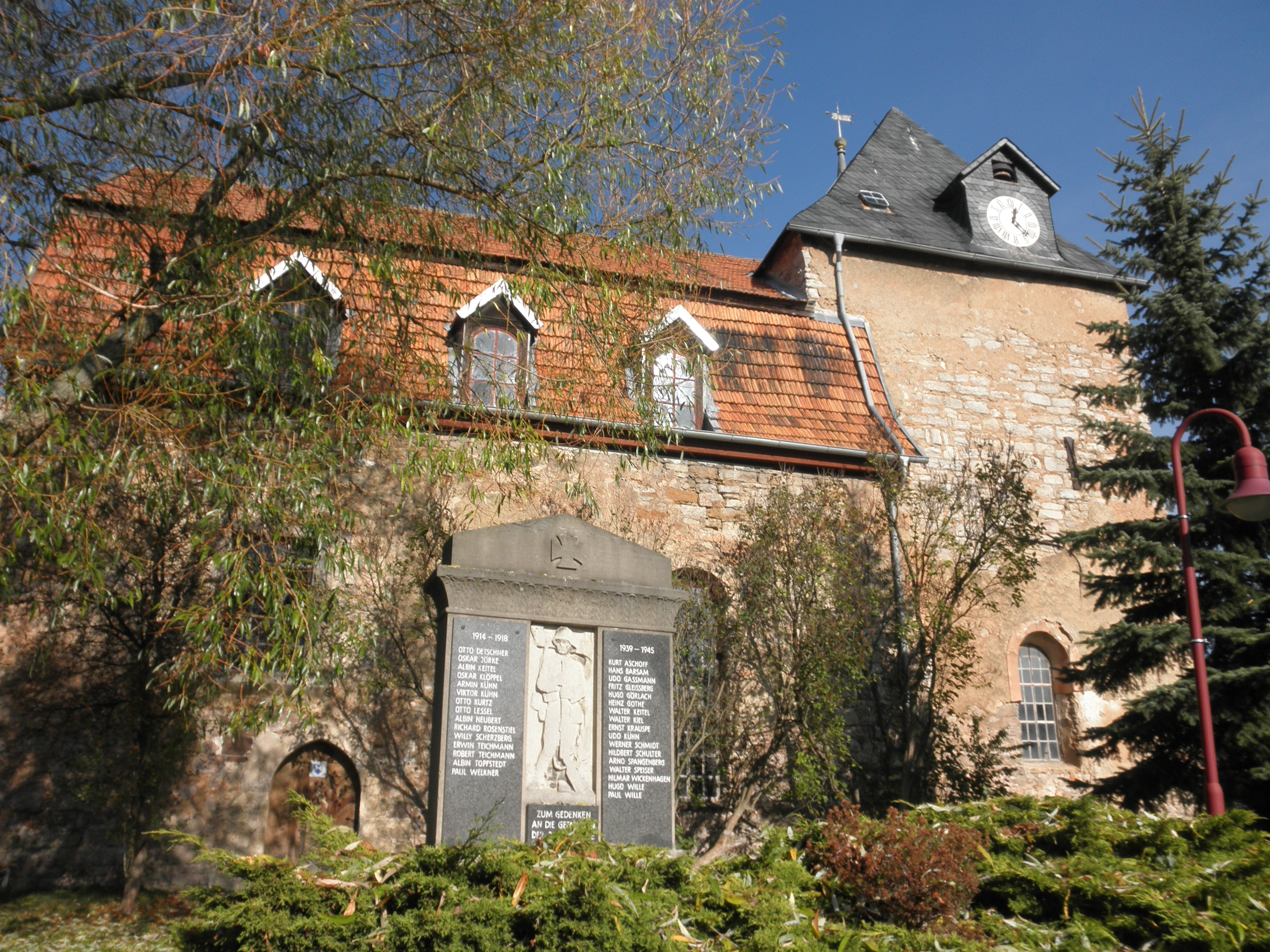 Church in Rockstedt in Thuringia